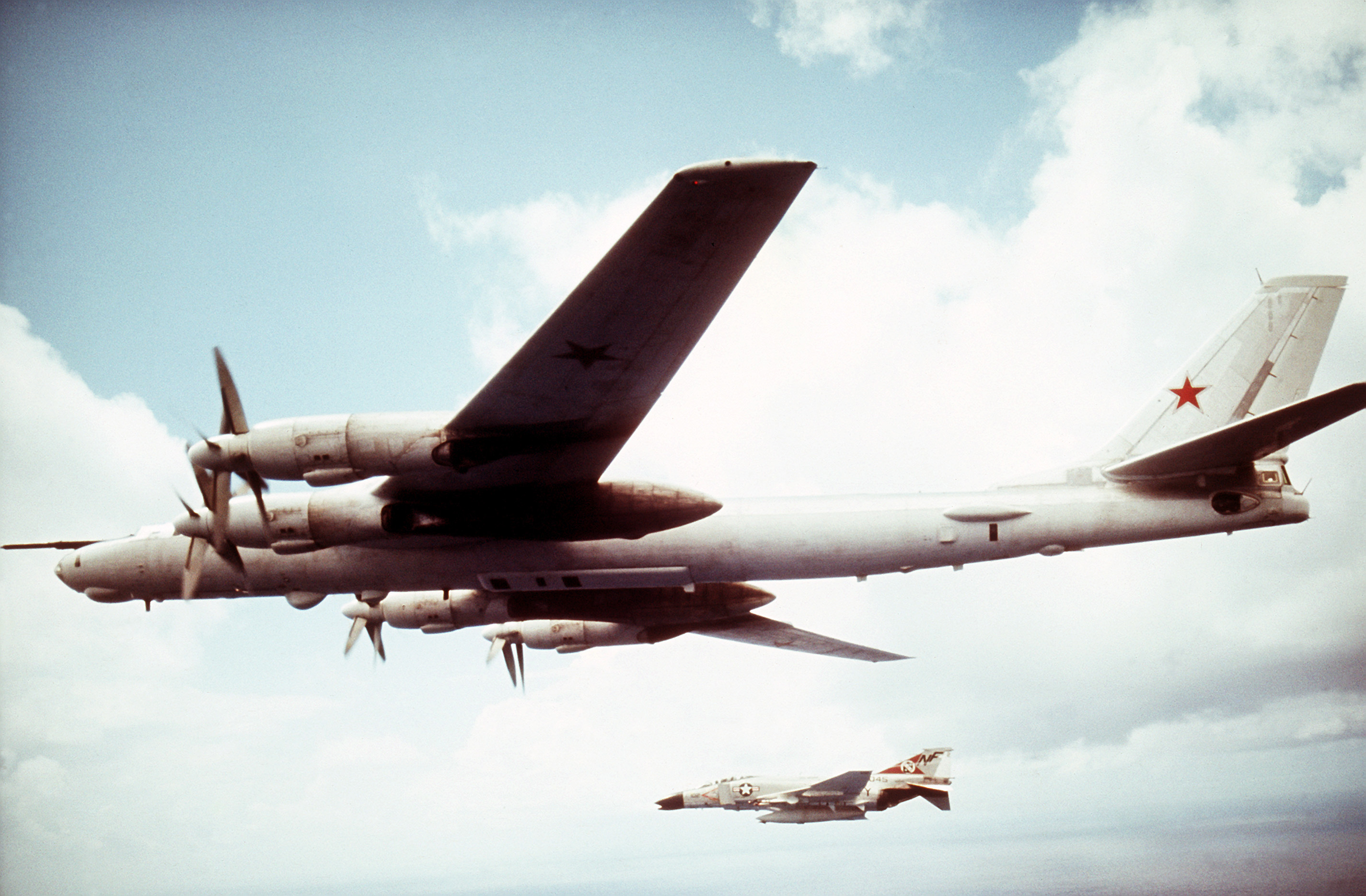 A U.S. Navy McDonnell F-4B-27-MC Phantom II (BuNo 153045) of Fighter Squadron 161 (VF-161) "Chargers" intercepting a Soviet Tupolev Tu-95MR (NATO reporting code "Bear-E") over the Sea of Japan. VF-161 was assigned to Carrier Air Wing 5 (CVW-5) aboard the aircraft carrier USS Midway (CVA-41) for a deployment to the Western Pacific and Vietnam from 16 April to 6 November 1971.